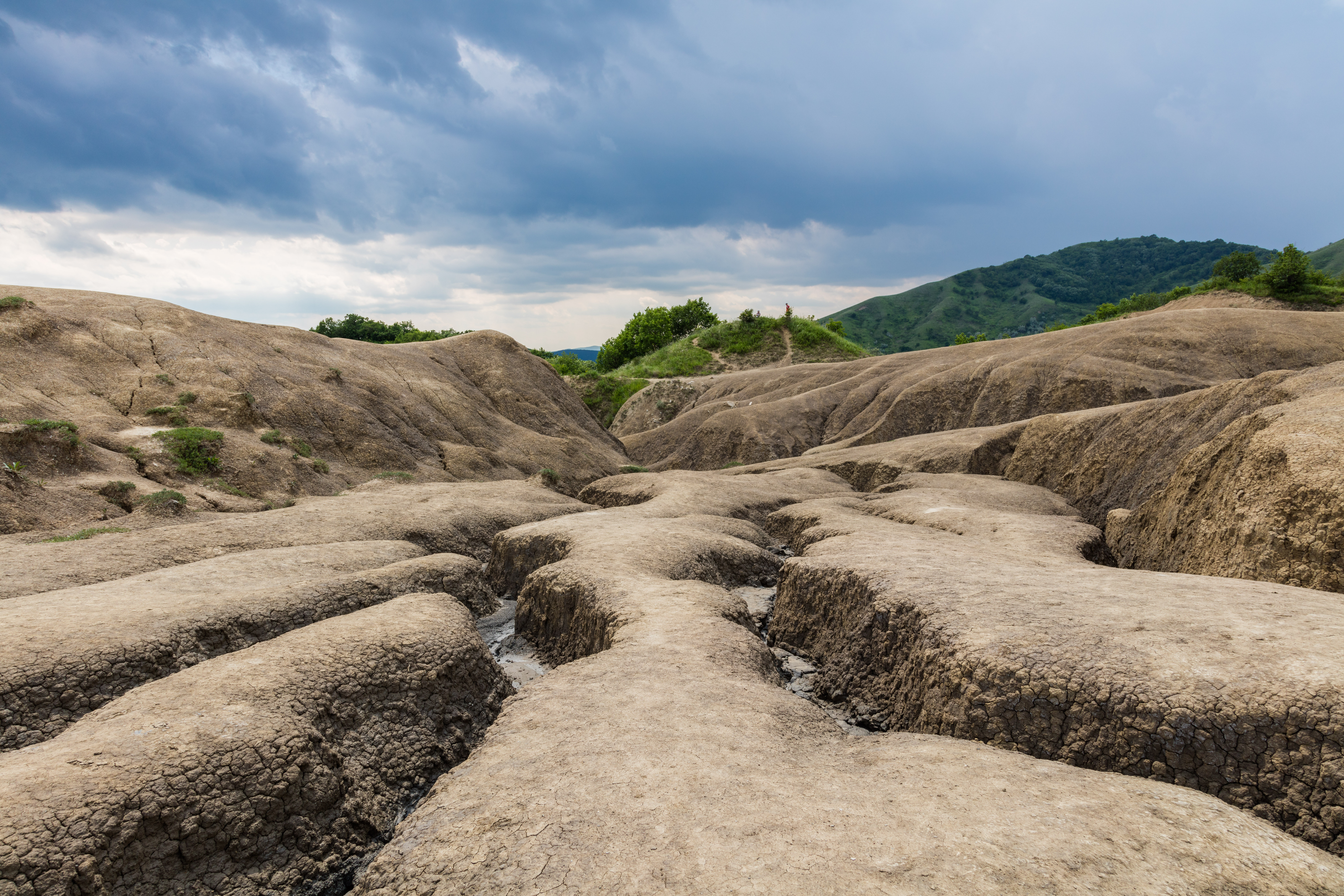 The Berca Mud Volcanoes are a geological and botanical reservation located close to Berca in Buzău County, Romania. The phenomenon is caused due to gases that erupt from 3,000 metres (9,800 ft) deep towards the surface, through the underground layers of clay and water, they push up underground salty water and mud, so that they overflow through the mouths of the volcanoes, while the gas emerges as bubbles. When the mud arrives at the surface, it dries off, changing the landscape in ways like you can see here.